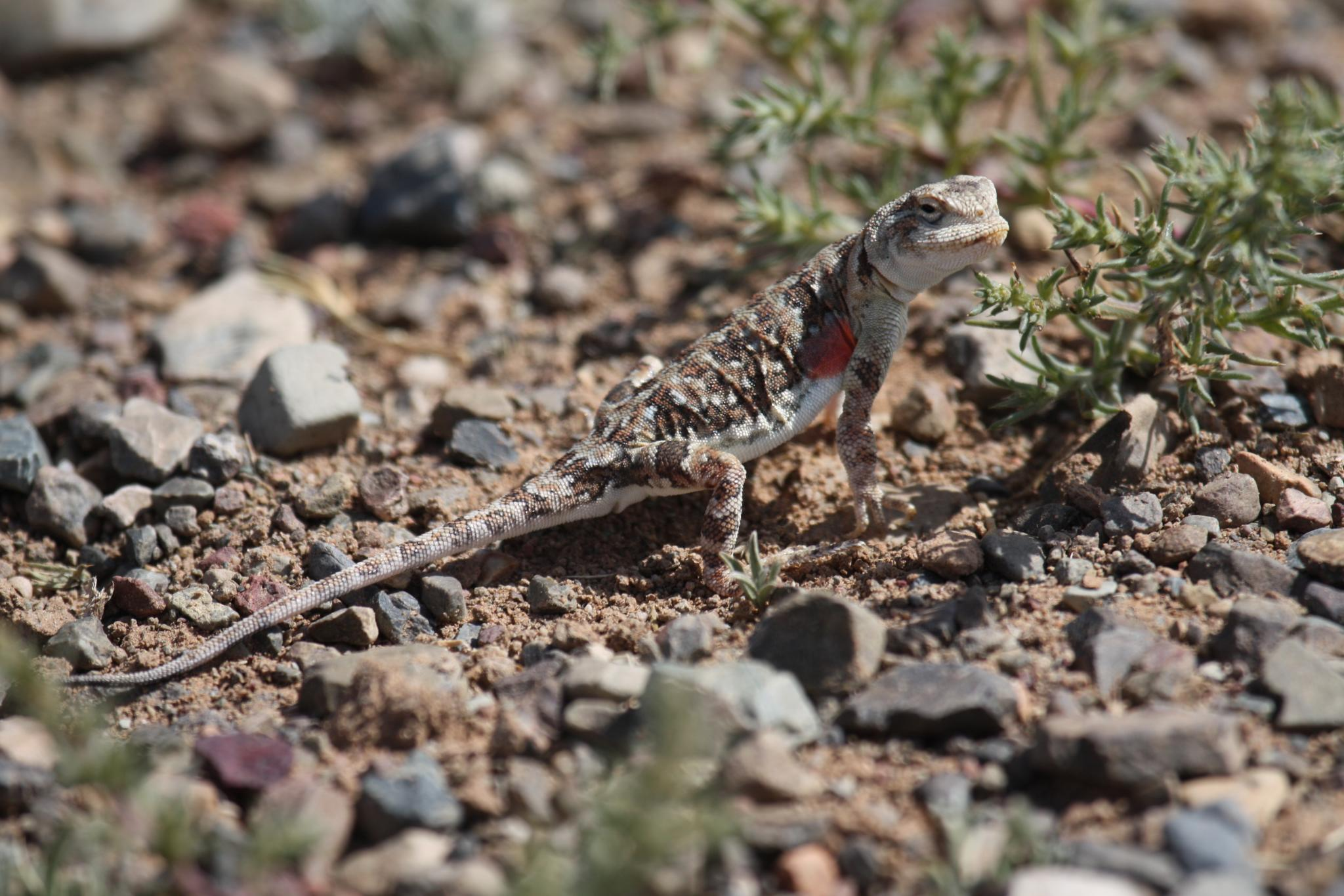 Tuva Toad-head Agama - small lizard on hot stony desert. Taken in southern Mongolia.